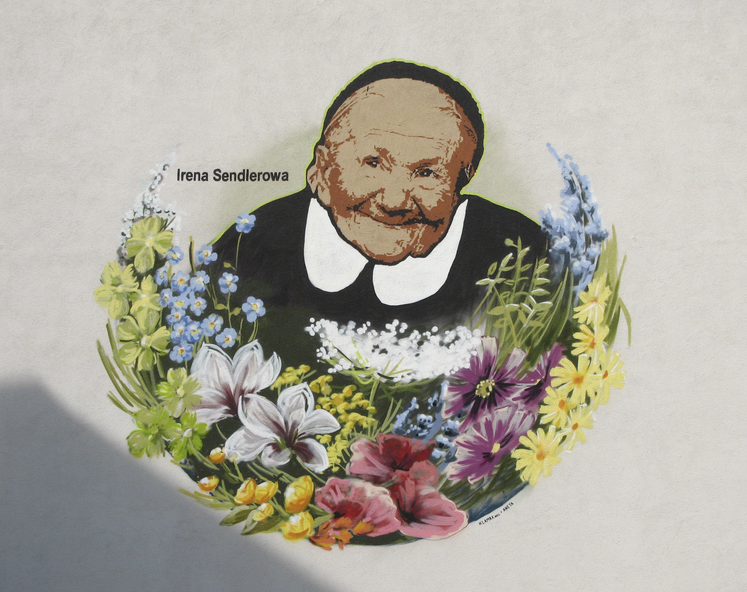 Mural depicting Irena Sendlerowa, Cieszyn, Bożnicza Street, Poland.